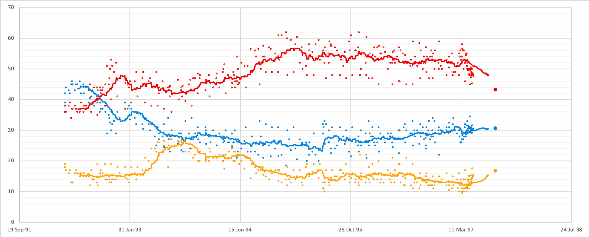 Red: Labour, blue: Conservatives, amber: Liberal Democrats